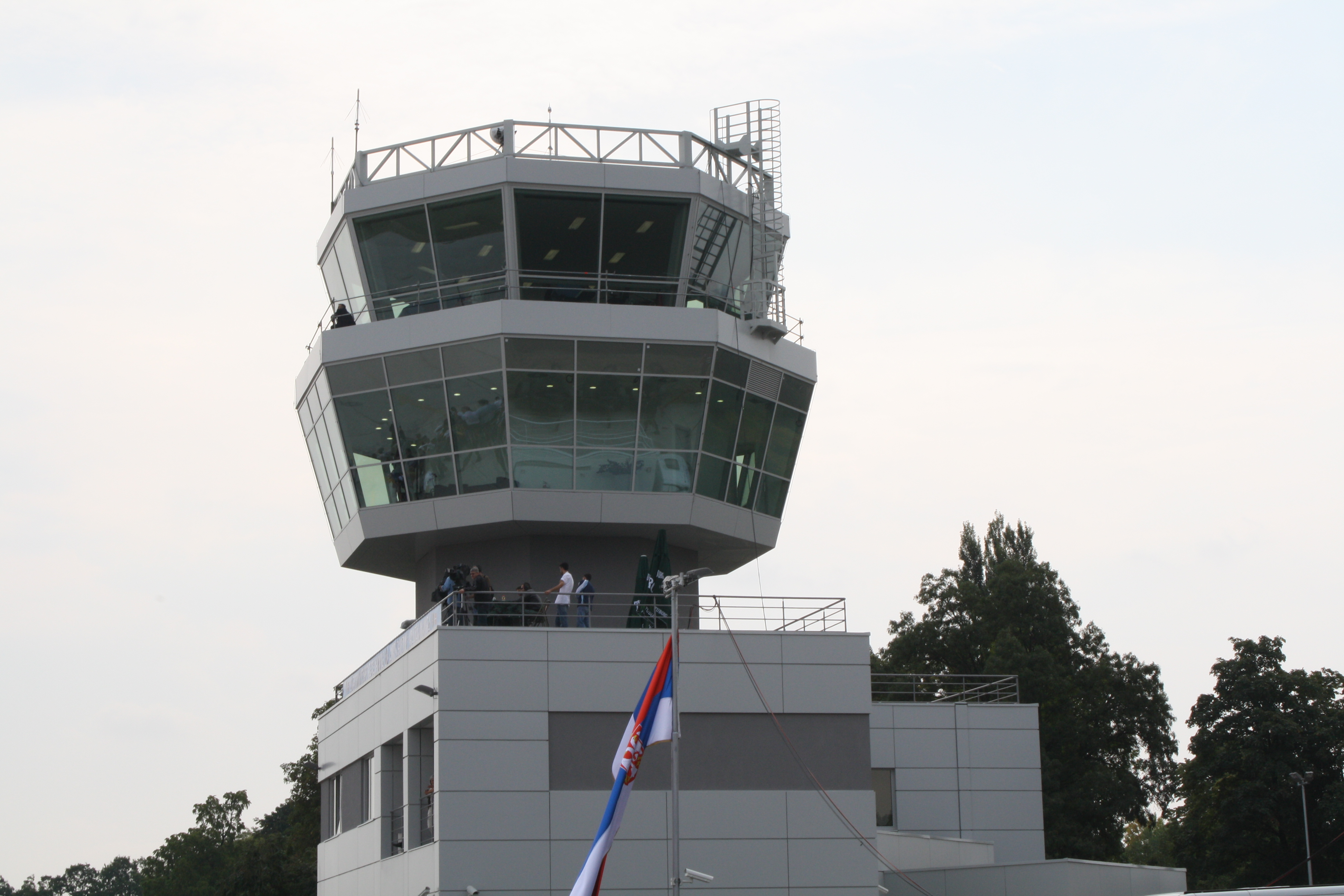 Batajnica 2009 airshow. Aеромитинг Батајница 2009.